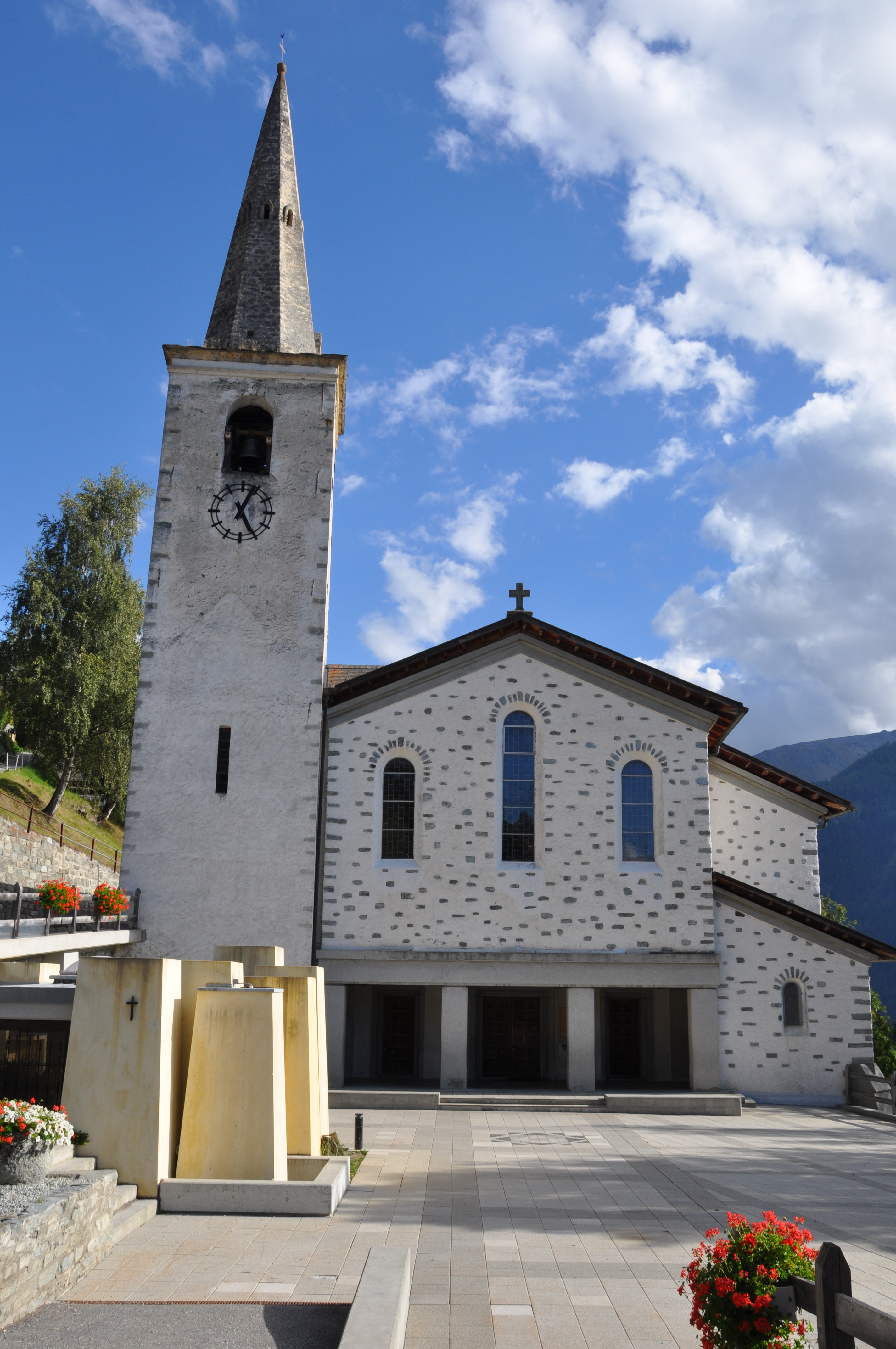 Église Saint-Martin